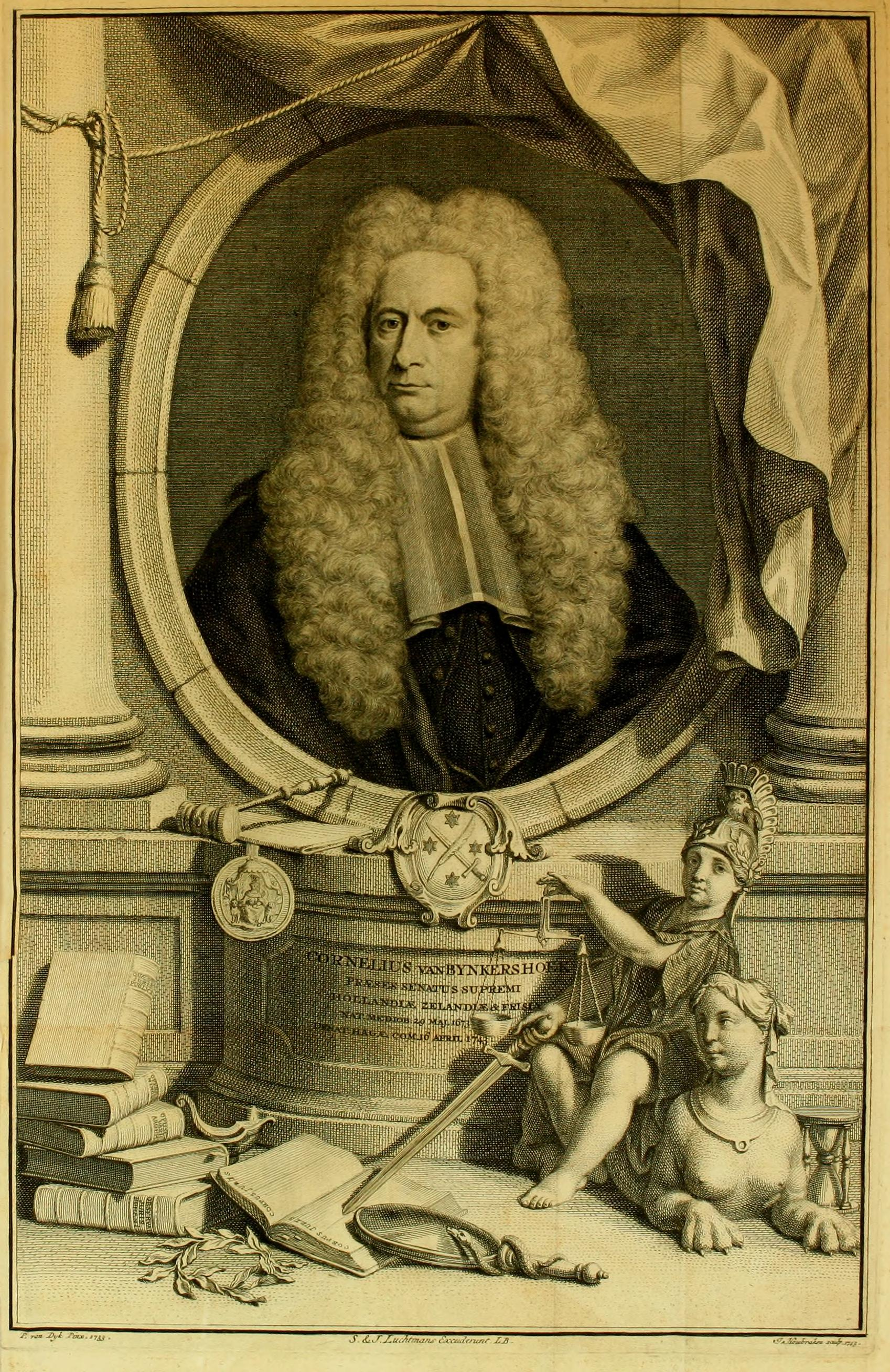 Frontispiece from Cornelii van Bynkershoek, Opera Omnia.